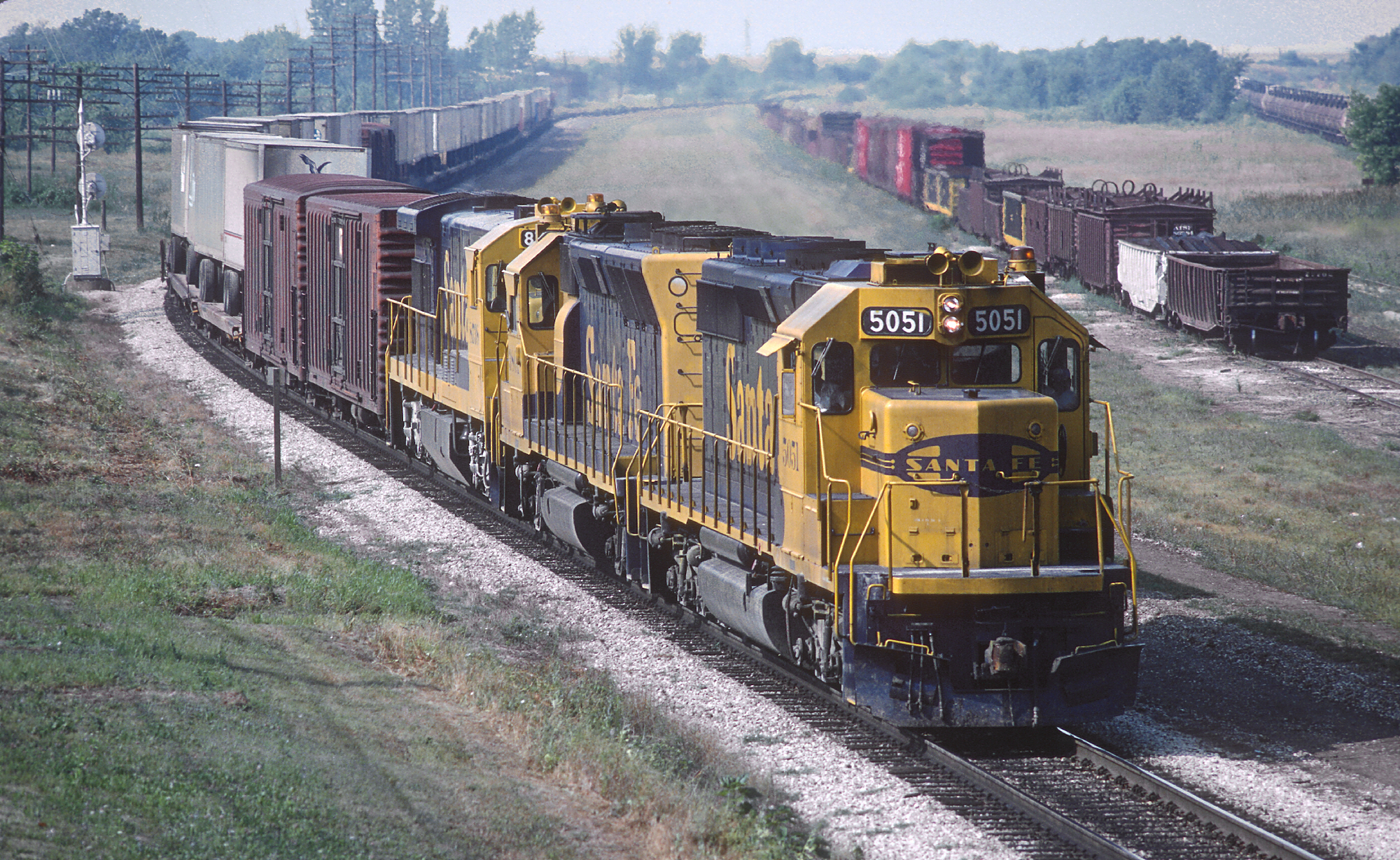 A Roger Puta Photograph